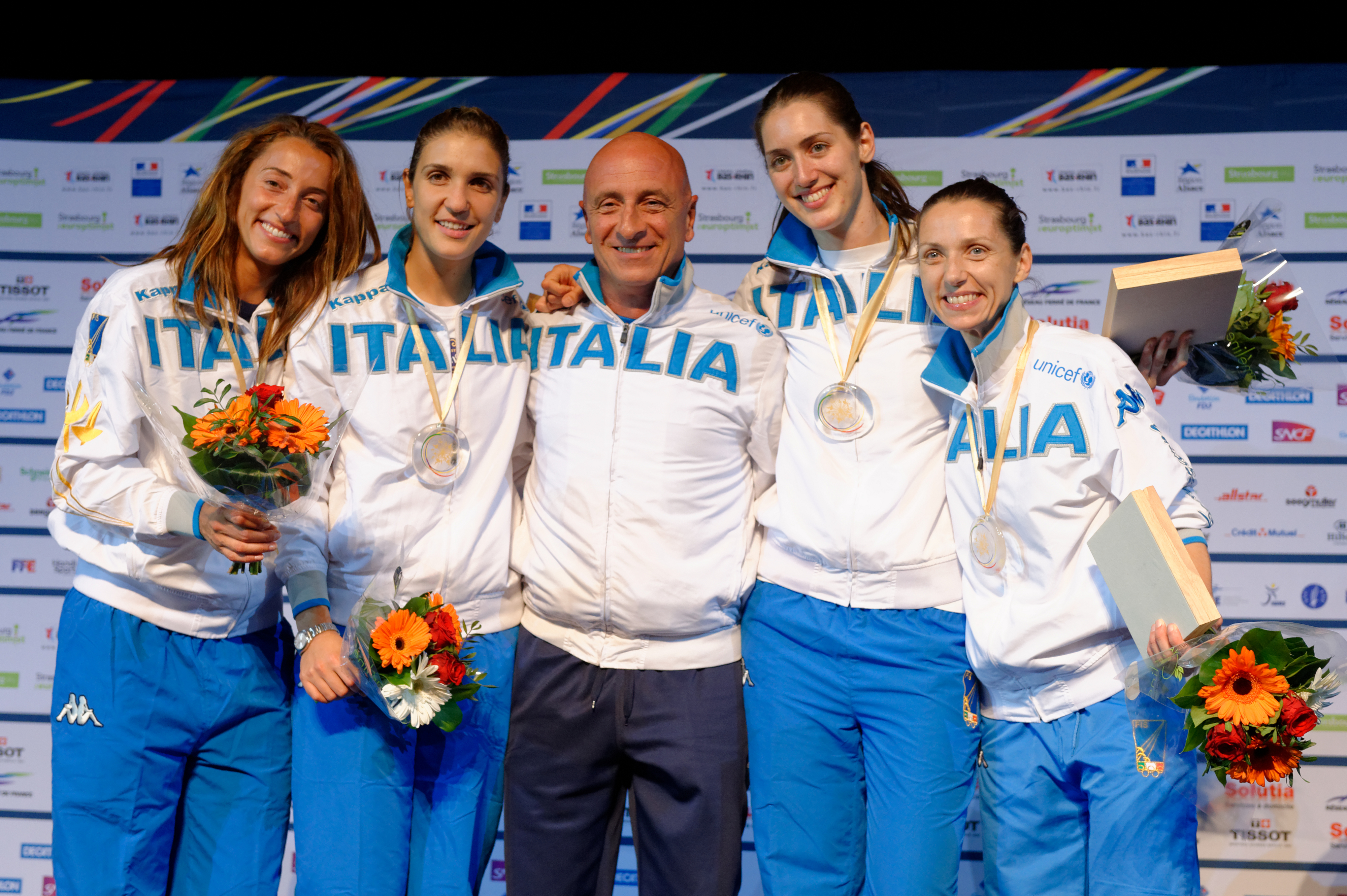 Italy (from left to right: Elisa Di Francisca, Arianna Errigo, coach Andrea Cipressa, Martina Batini, and Valentina Vezzali) at the award ceremony of the women's team foil event at the European Fencing Championships at Rhénus Sport in Strasbourg on 14 June 2014.